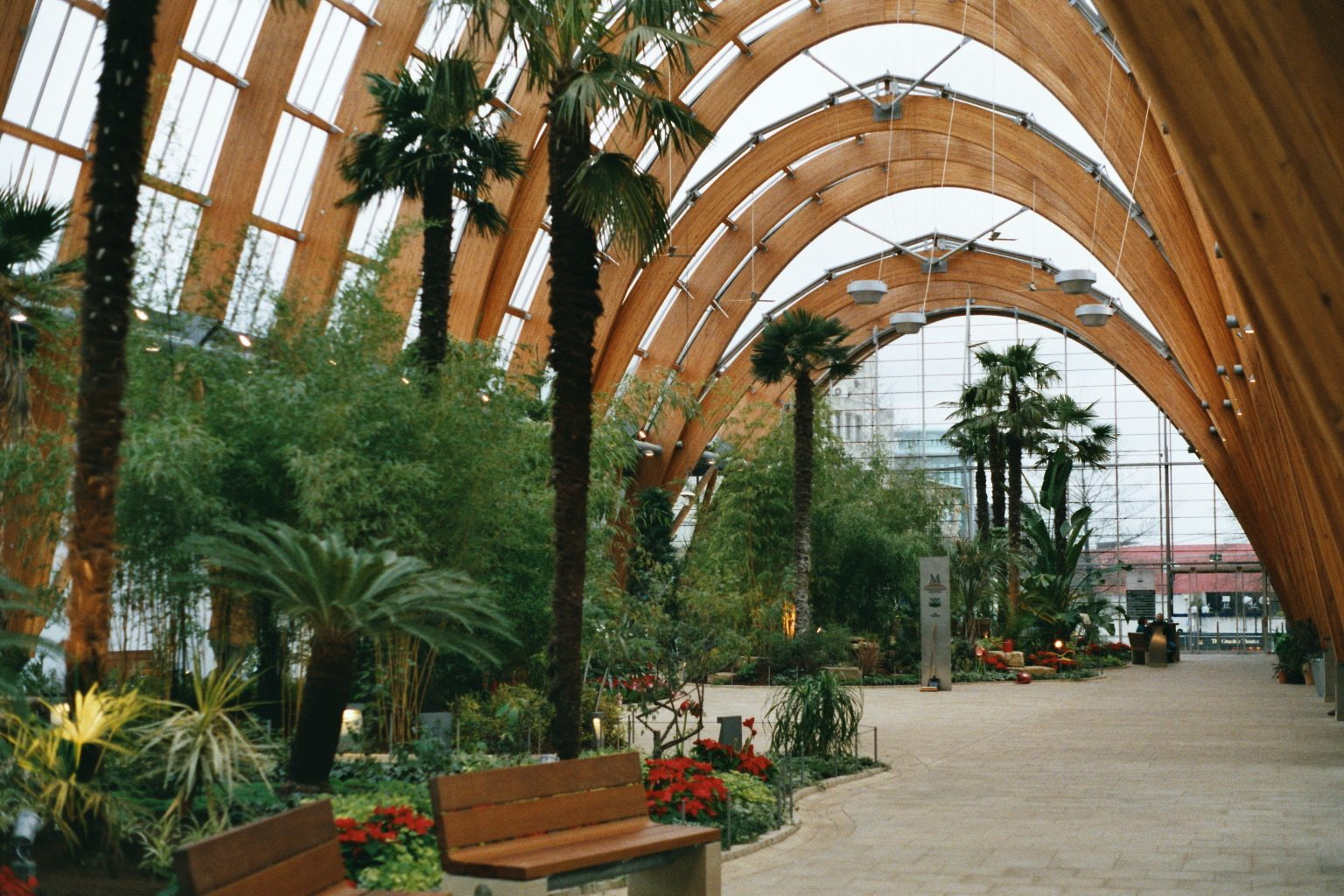 Sheffield Winter Gardens, Sheffield, England.